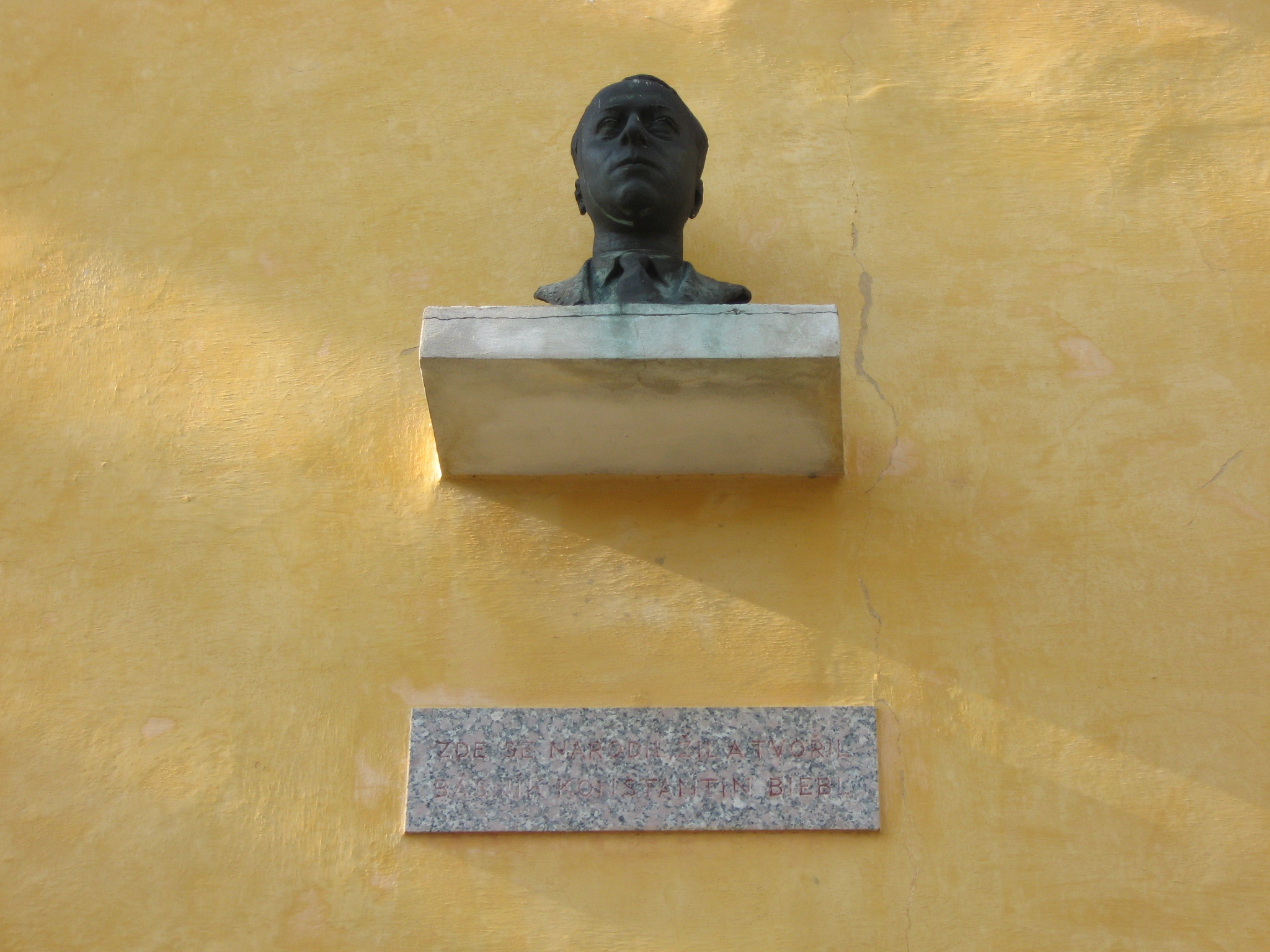 Plaque und Bust on the House of the Poet Konstantin Biebl in Slavětín, Louny District, Czech Republic